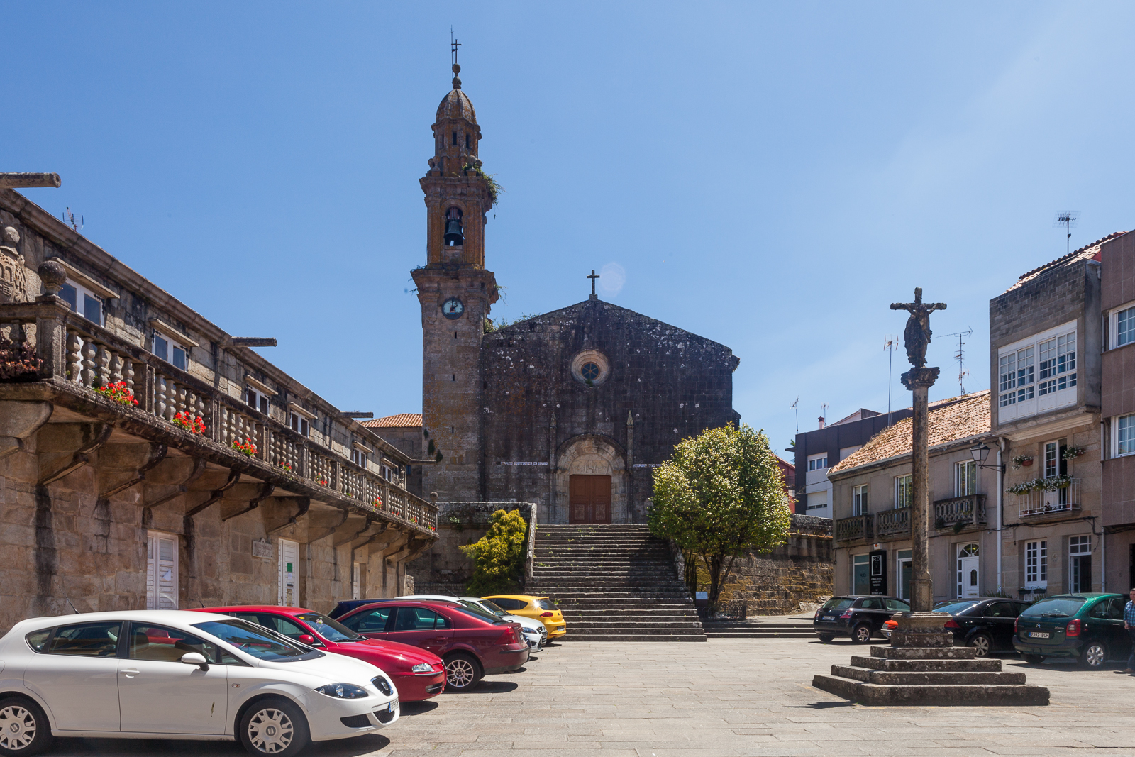 Rafael Dieste square and church of Santa Comba. Rianxo, Galicia, Spain.